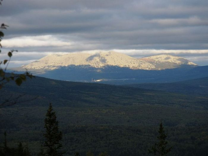 Yamantu Mountain in Ural Mountains, Bashkortostan, Russia